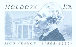 Stamp of Moldova